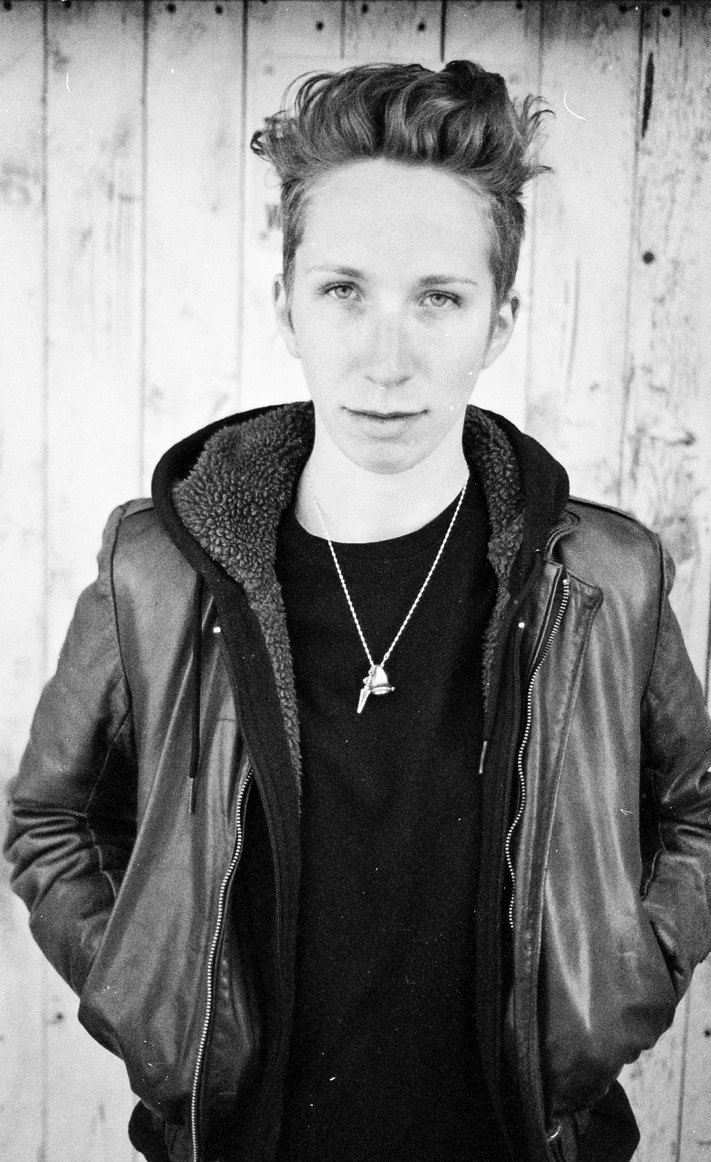 iO Tillett Wright: Creator of the Self Evident Truths Project. Shot with a 35mm film camera.